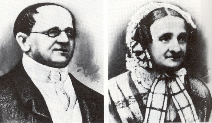 Johann Christian Biberbach and his wife Klara